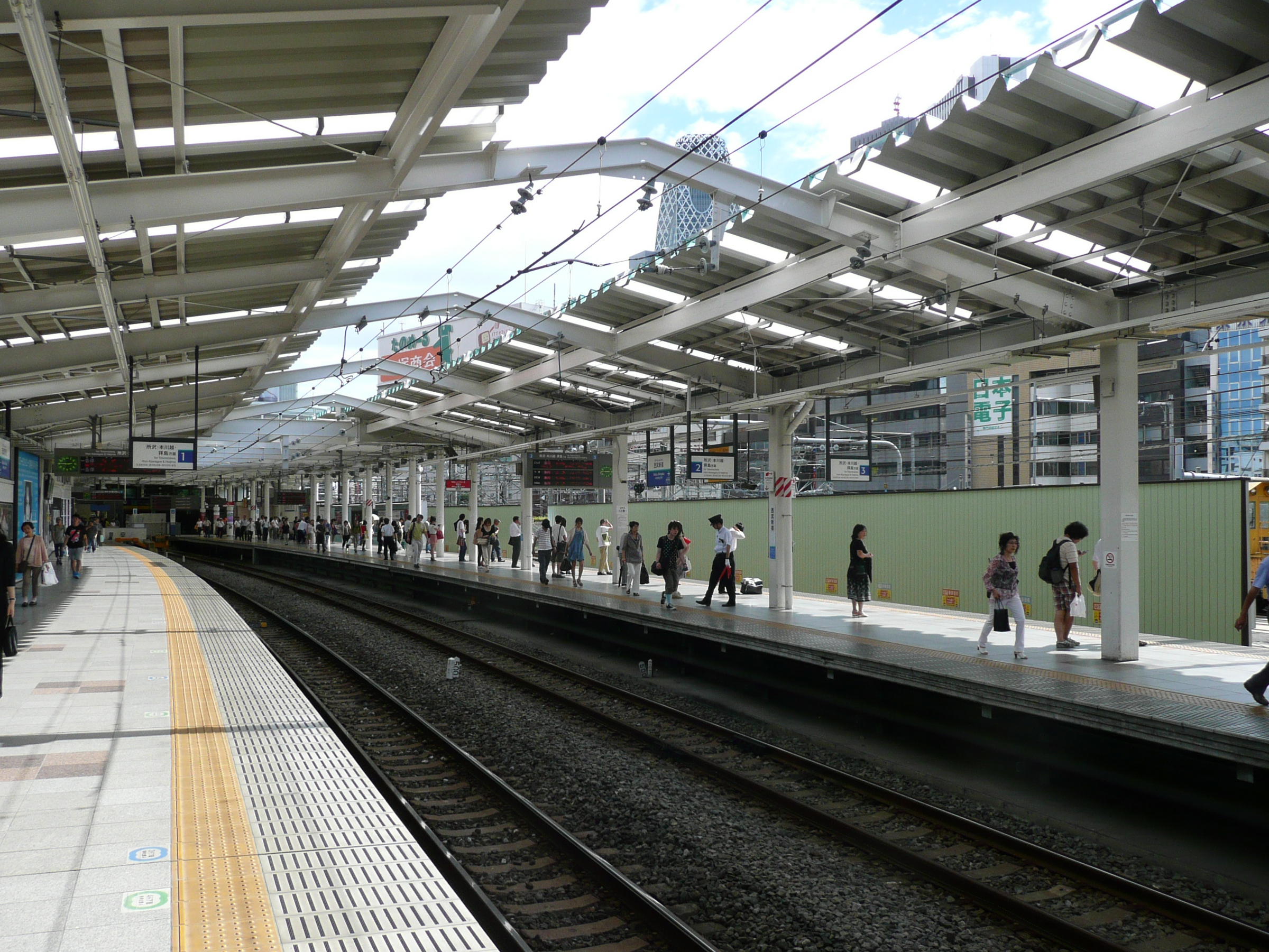 Platforms of Seibu-Shinjuku Station